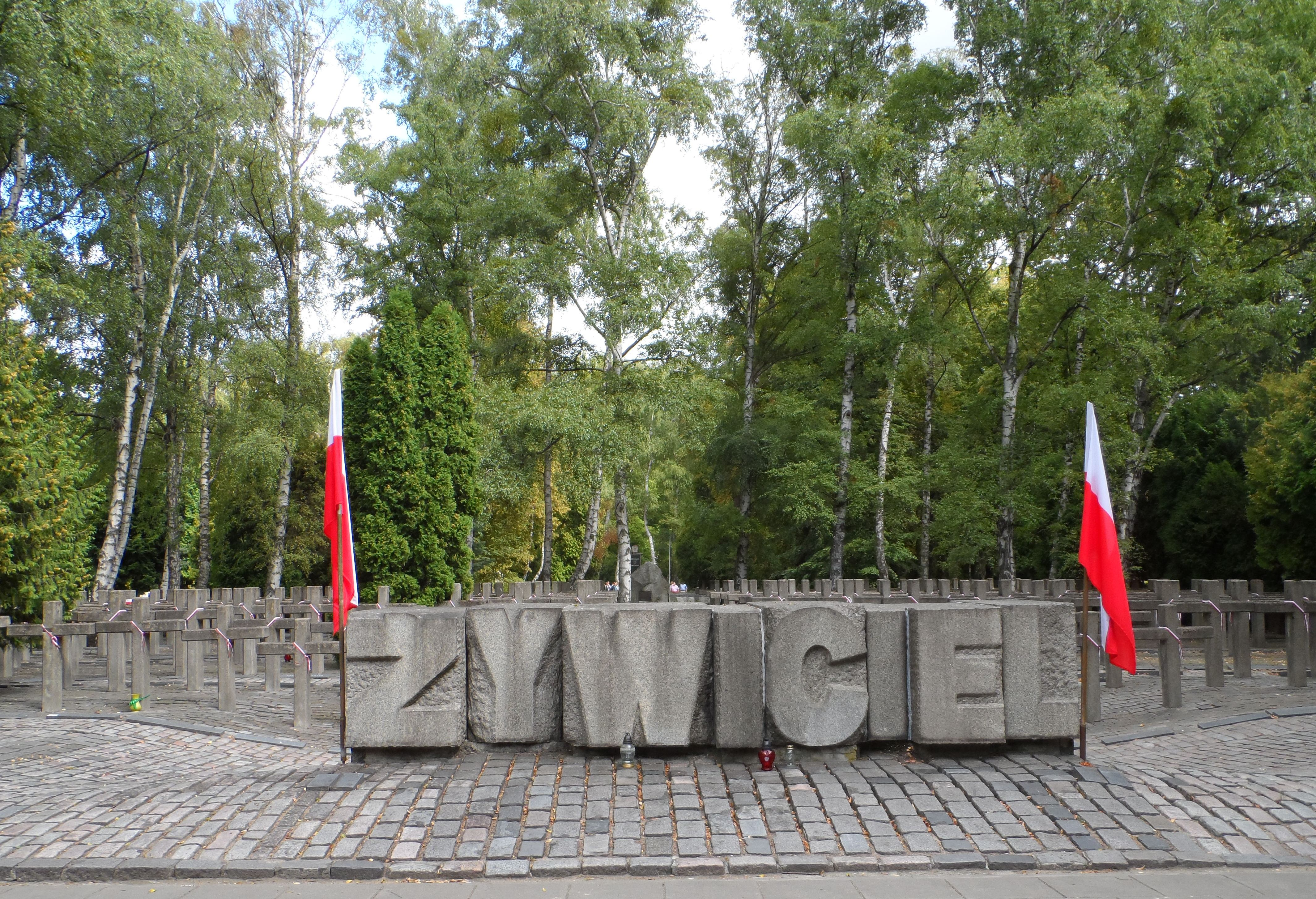 The Armia Krajowa’s Sub-district II “Żoliborz” quarter (so-called “Żywiciel” quarter) at the Military Cemetery in Warsaw.